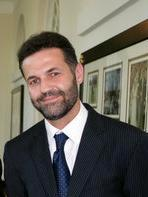 Khaled Hosseini in 2007. White House photo by David Bohrer